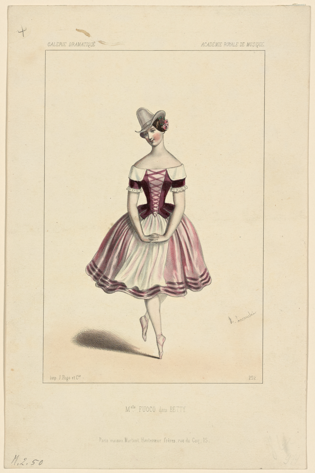 Melle. Fuoco dans Betty, Académie royale de musique. Lithograph by Rigo after drawing by Alexandre Lacauchie